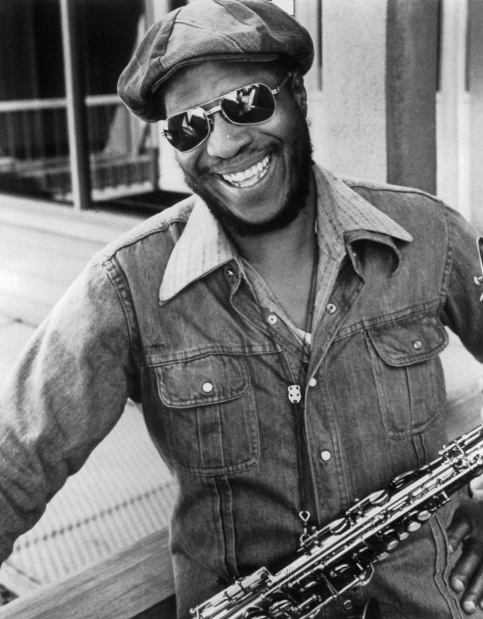 Photo of musician John Handy.